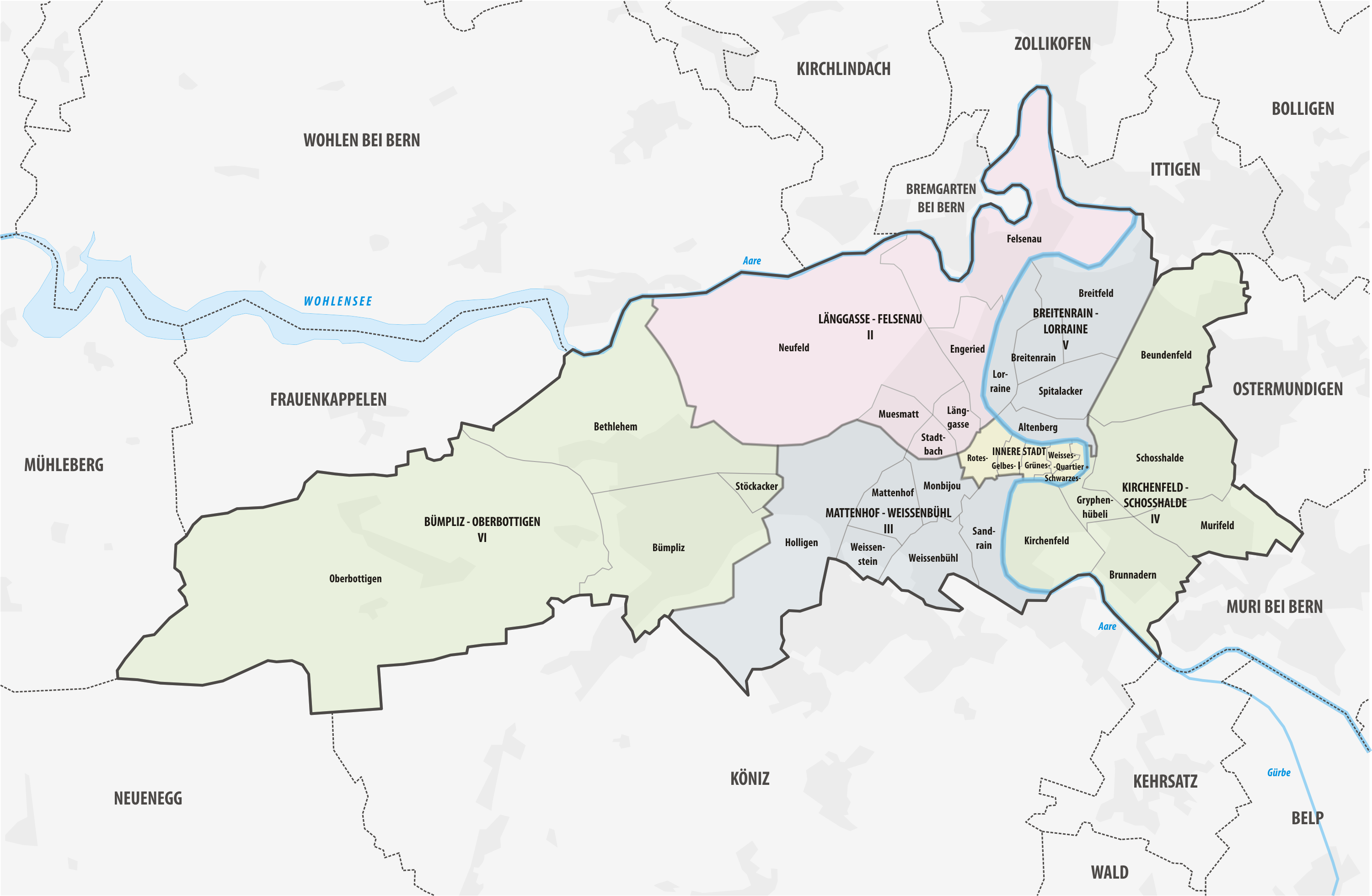 Quarters of Berne